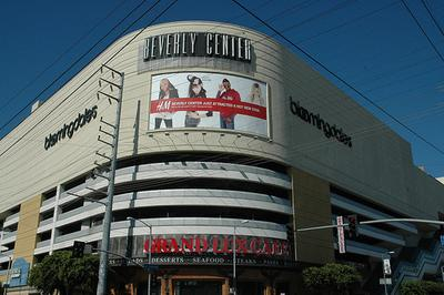 This picture was taken and scanned by me. I release all rights.